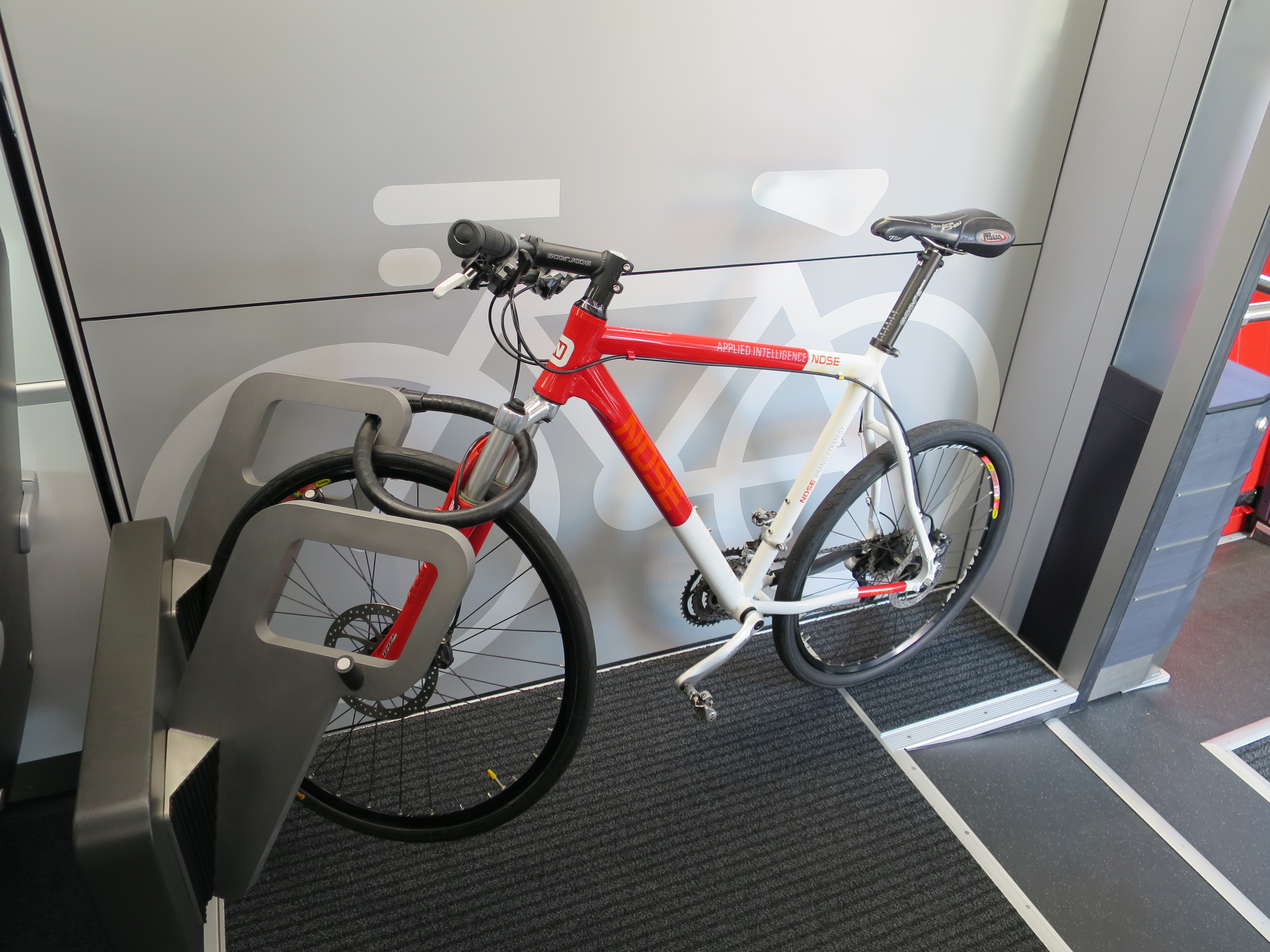 InnoTrans 2016 - STADLER EC250 - strefa transportu rowerów The making of this document was supported by Wikimedia Polska Association, within Wikigrant no. WG 2016-35.